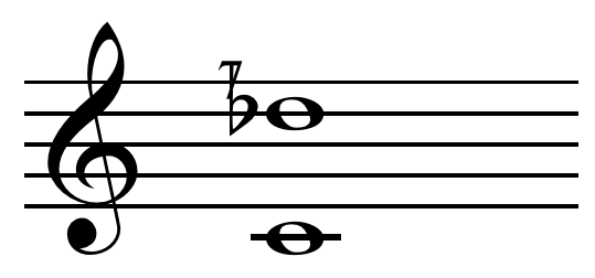 Octave and septimal chromatic semitone on C = D♭ (Ben Johnston's notation). Just: 21:10 = 1284.47 cents. Limit: 7-limit.